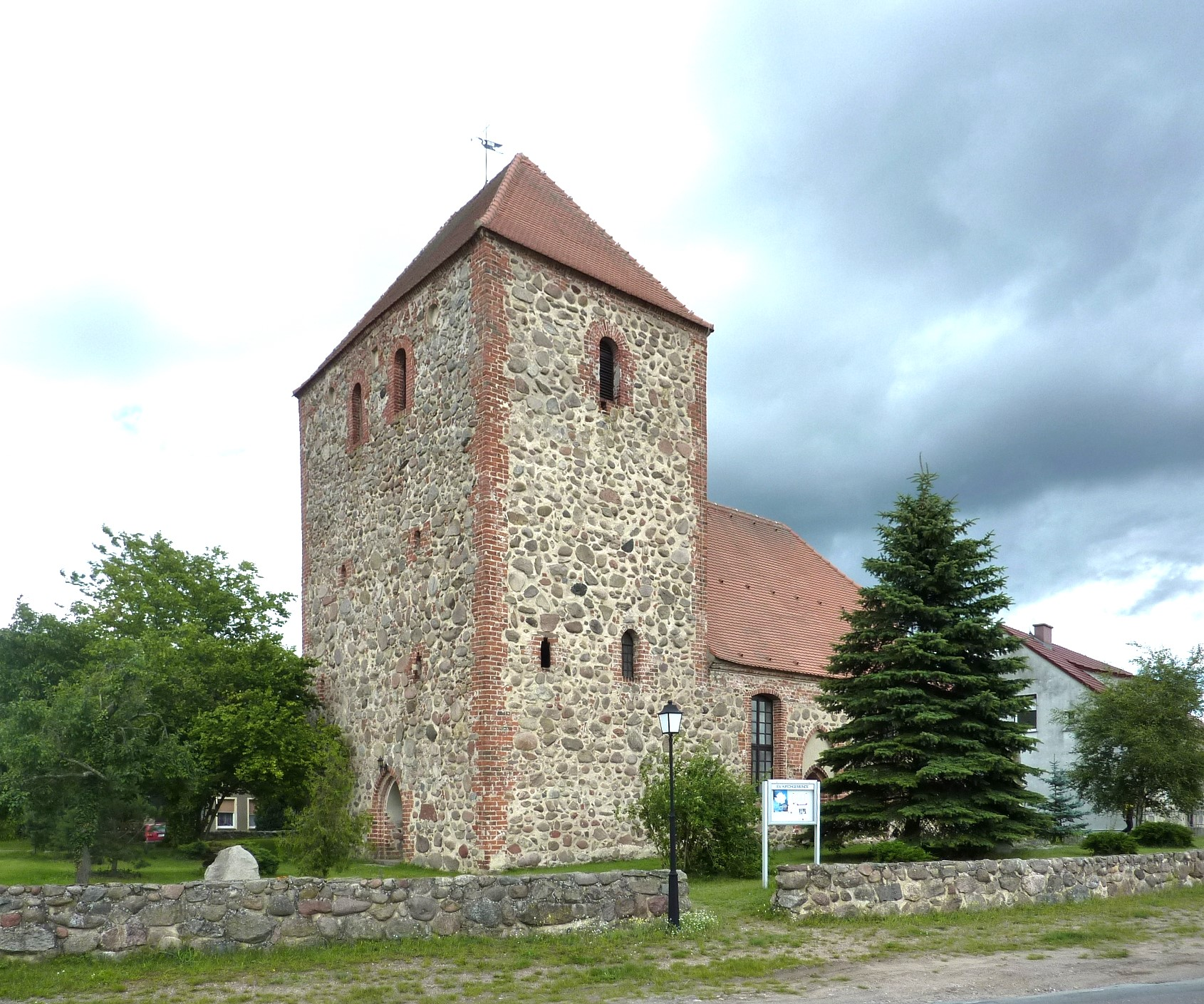 Church in Schweinrich, Wittstock municipality, Ostprignitz-Ruppin district, Brandenburg state, Germany